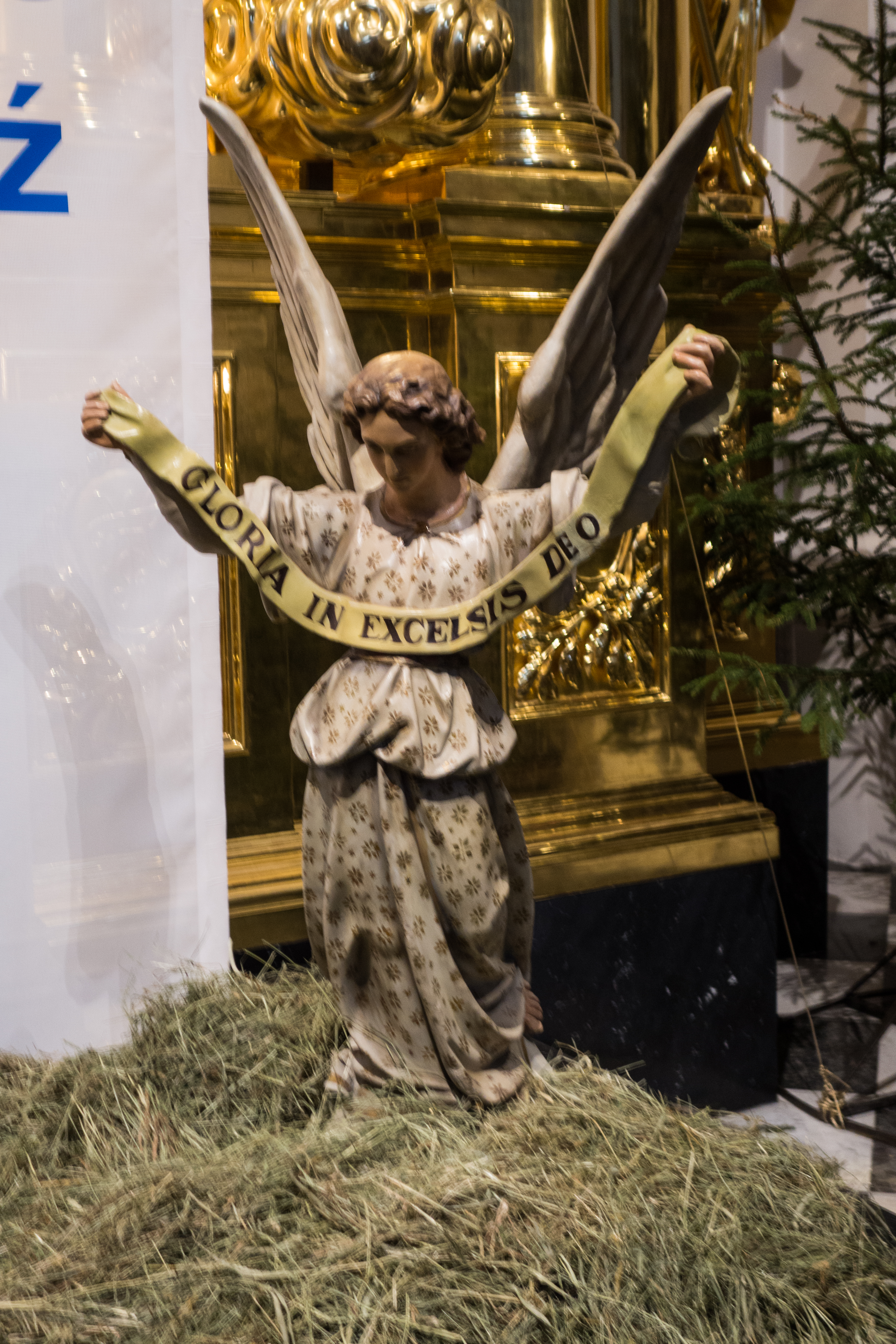 Poland 2014